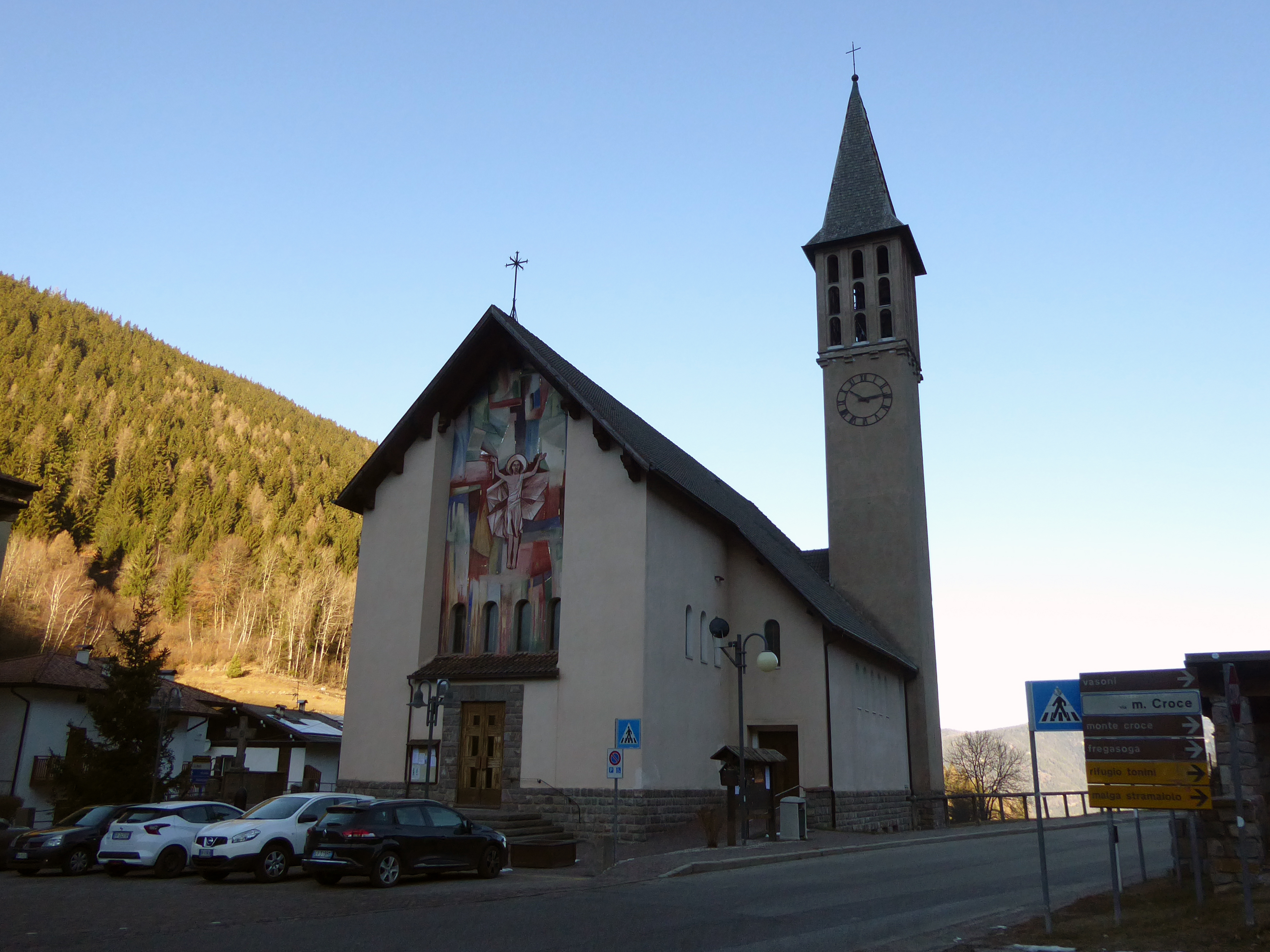 Brusago (Bedollo, Trentino, Italy) - Church of Our Lady of Good Counsel